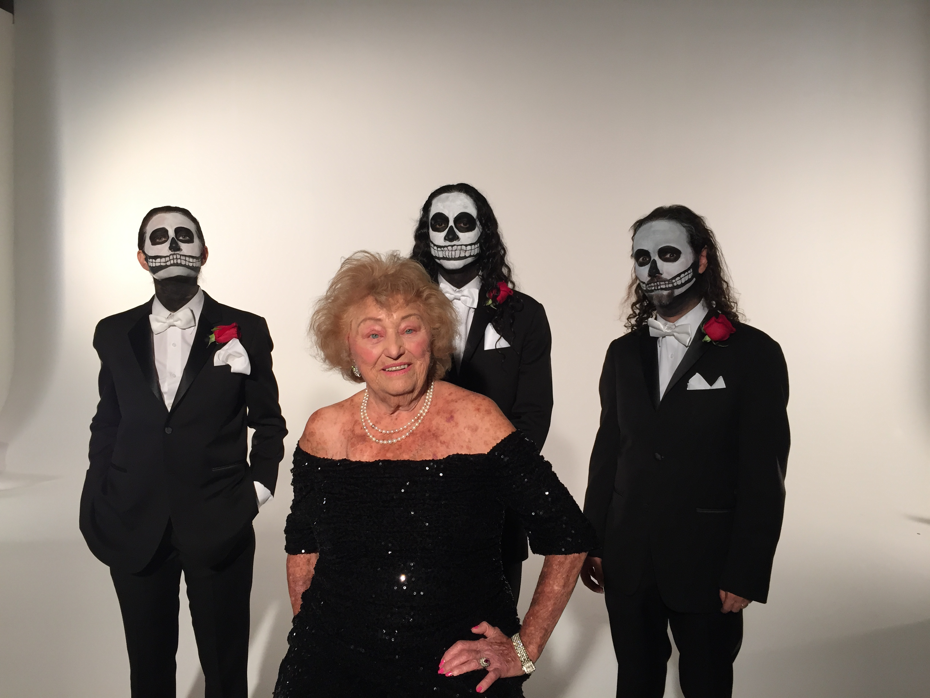 Inge and the TritoneKings